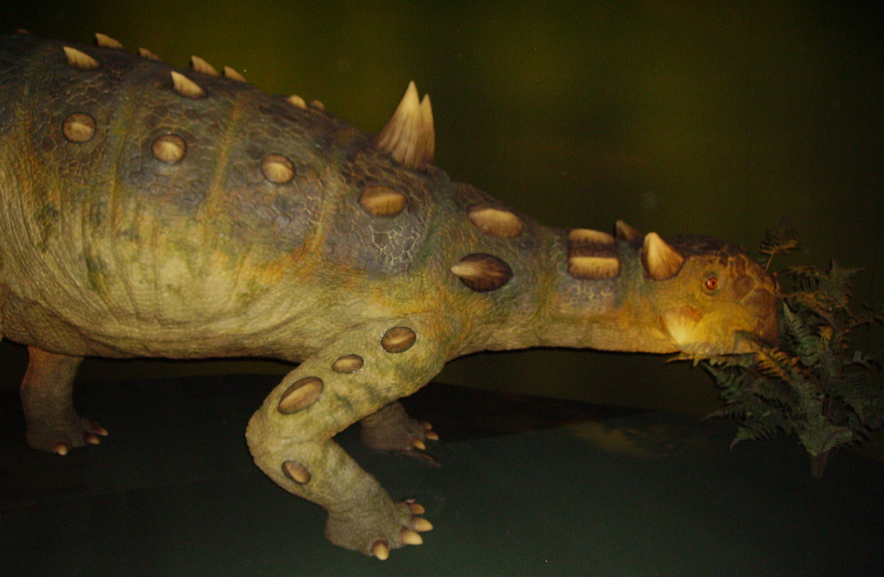 Photograph by User:Ballista Image edited in Adobe PhotoShop by User:Firsfron